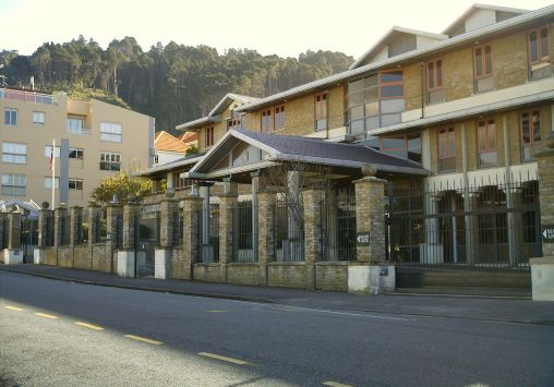 Photo of the British diplomatic mission in Wellington, New Zealand